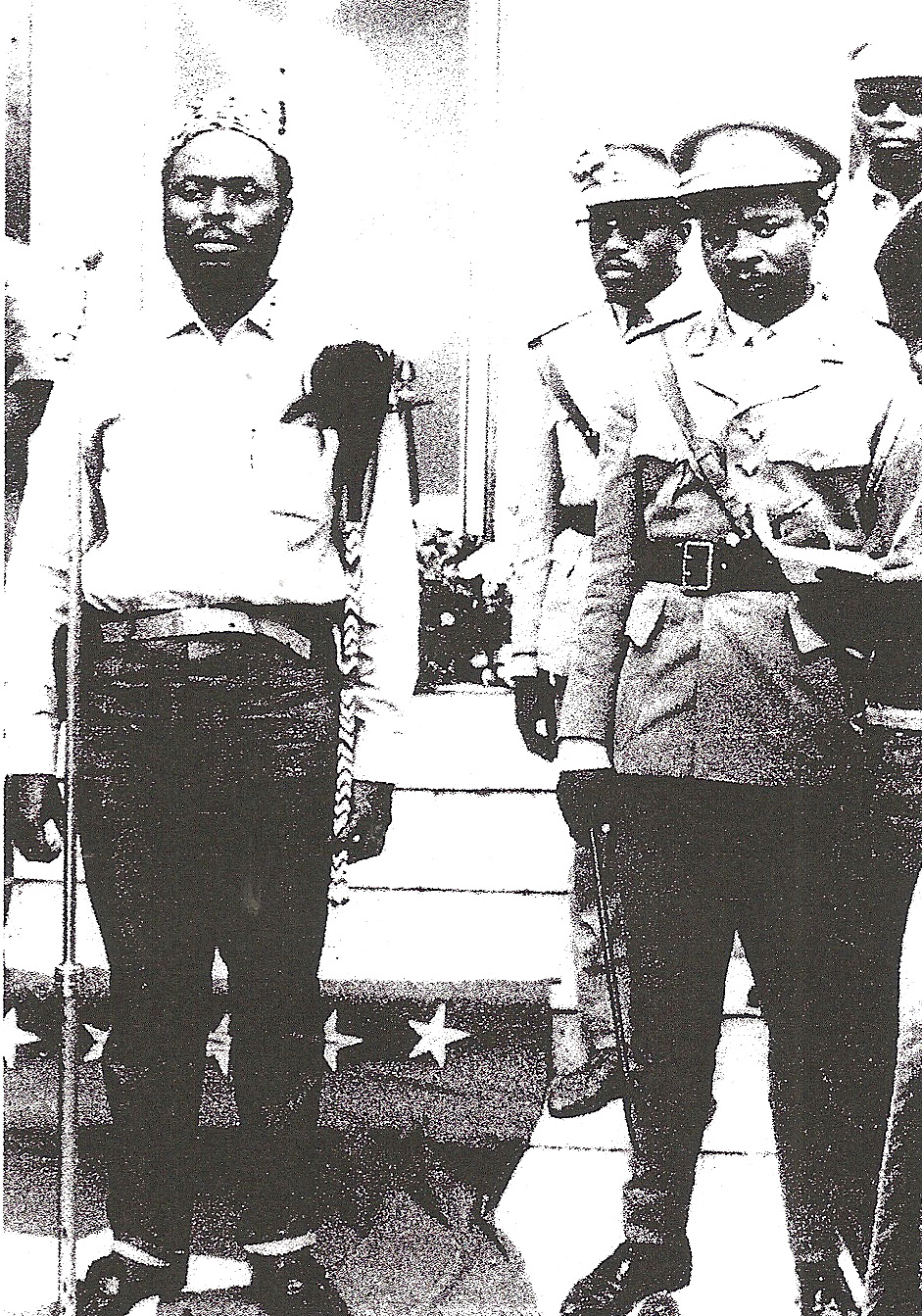 Christophe Gbenye, President of the Republic People's Republic of Congo, and General Nicholas Olenga at the Lumumba Monument in Stanleyville, summer 1964. Gbenye is standing atop of the flag of the defunct Republic of the Congo (Léopoldville). Photo by unknown author, collected in Stanleyville by Warrant Officer Henrard, of the Ommegang column.